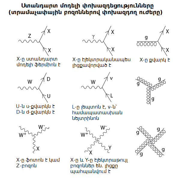 A list of the vertices that appear in Standard Model Feynman Diagrams. Higgs Boson interactions and neutrino oscillations are omitted. Feynman rule values of the vertices are also omitted.